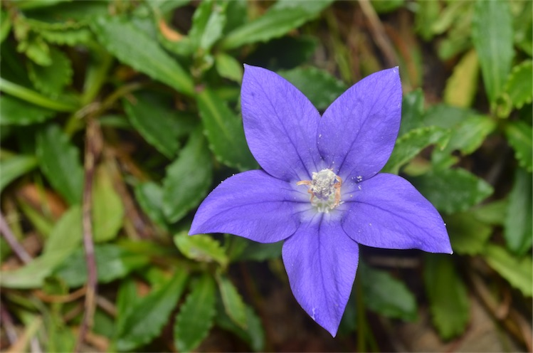 Wahlenbergia gloriosa in a suburban garden in O'Connor, ACT